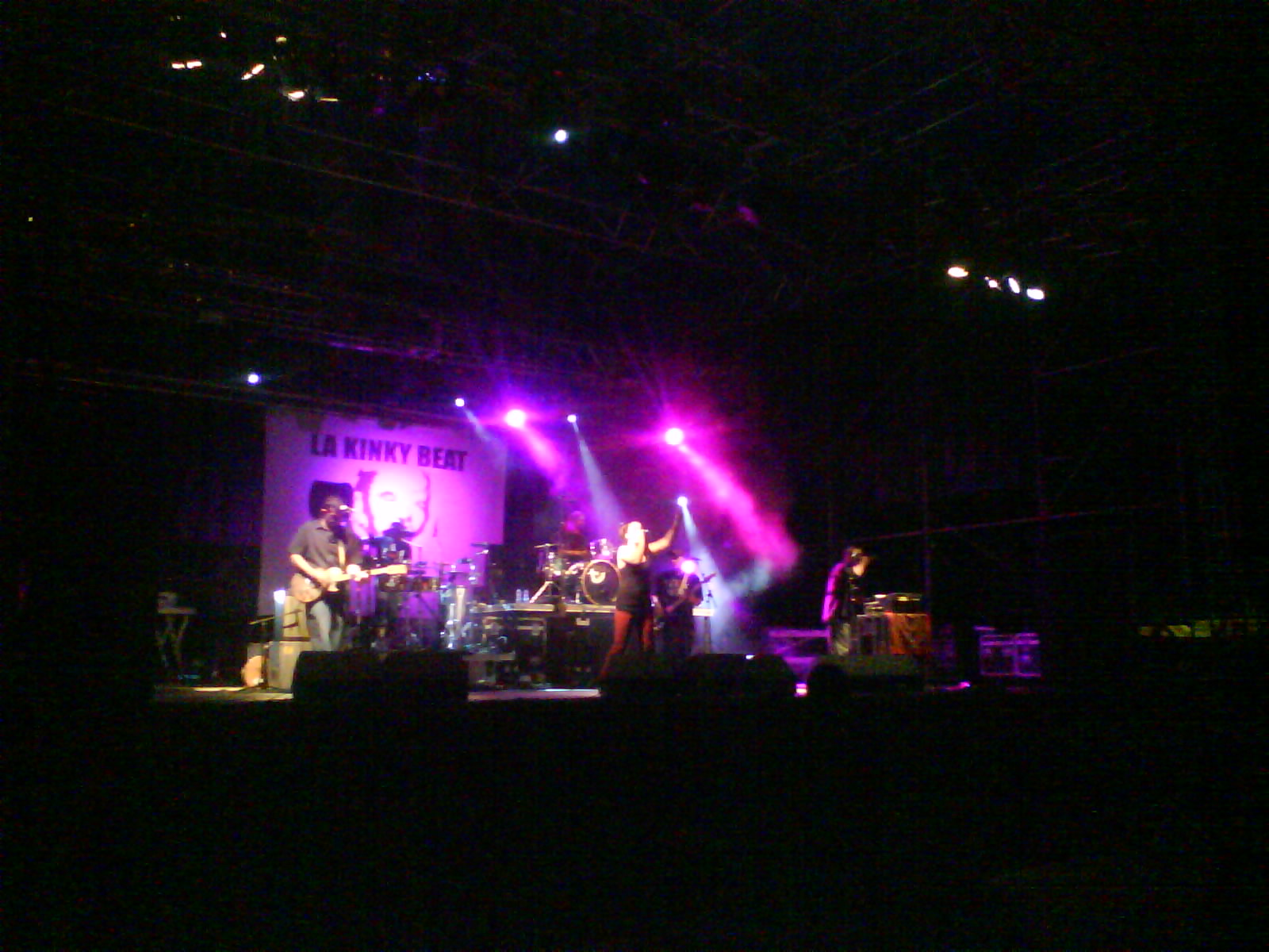 La Kinky Beat during a concert in Aupa Lumbreiras festival in Tobarra, in 2008, during the Kinky Tour.